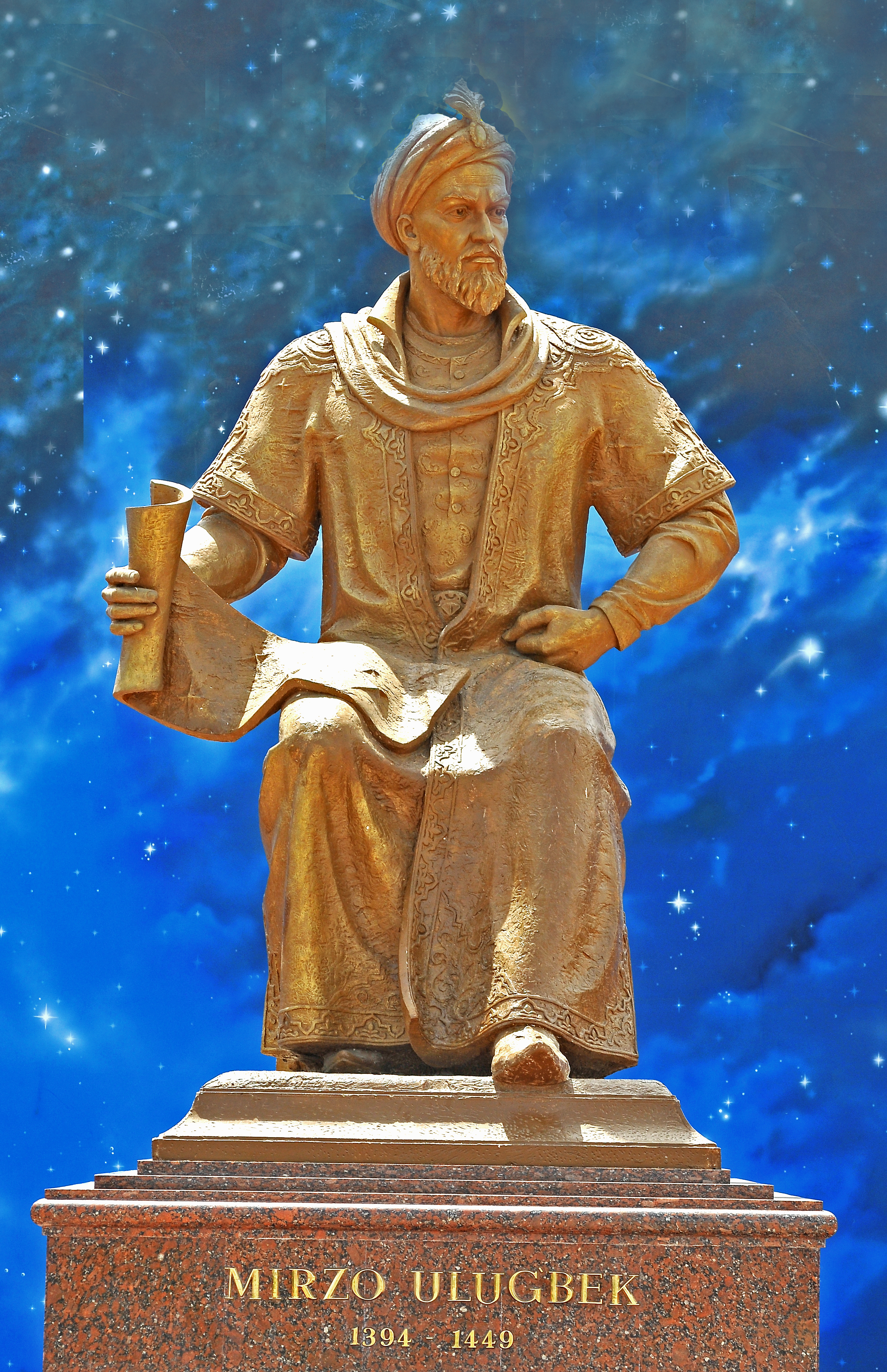 Statue of Ulugh Beg byside the old astronomical observatory. Samarkand, Uzbekistan